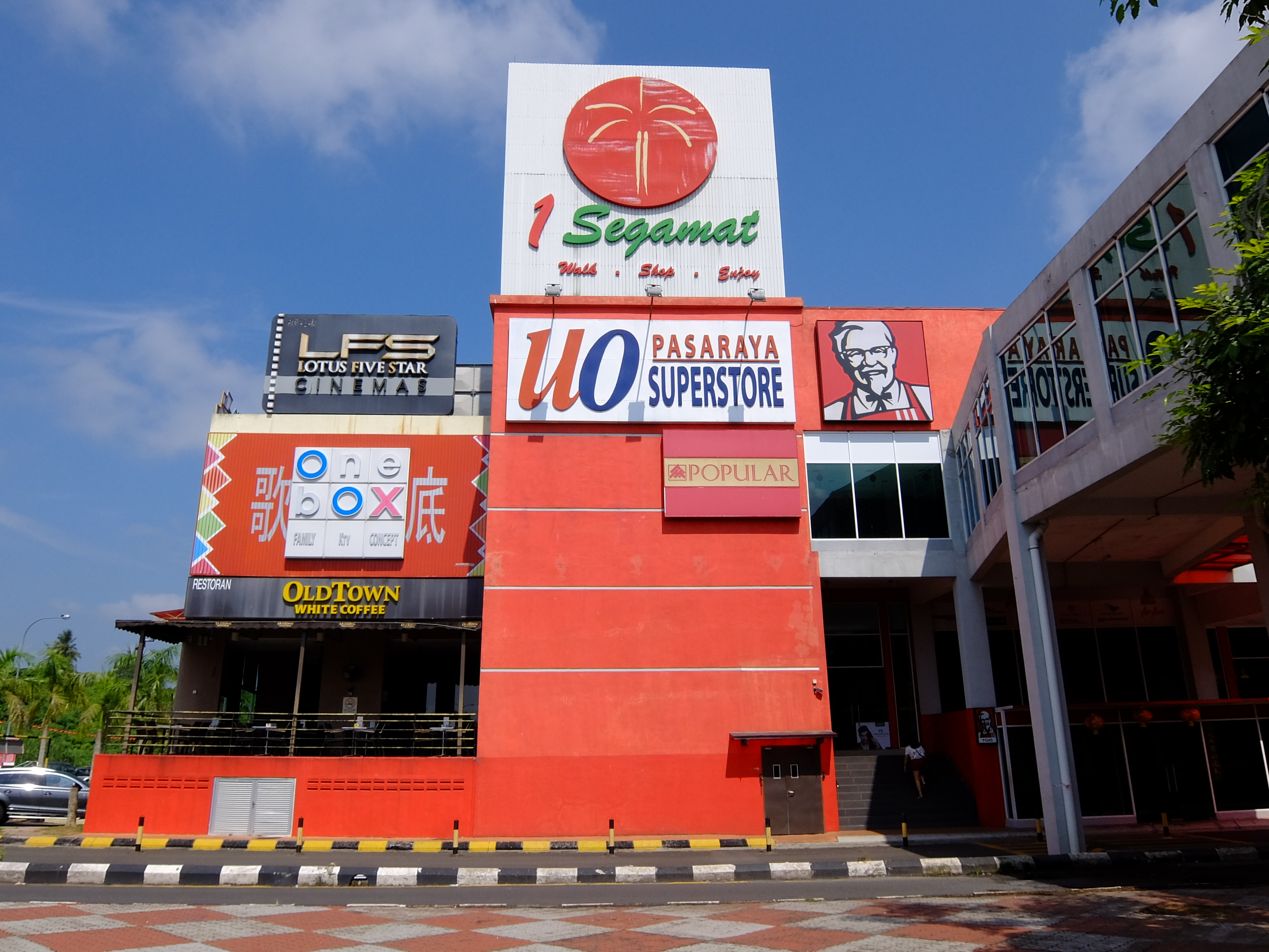 1 Segamat, Segamat, Johor, Malaysia